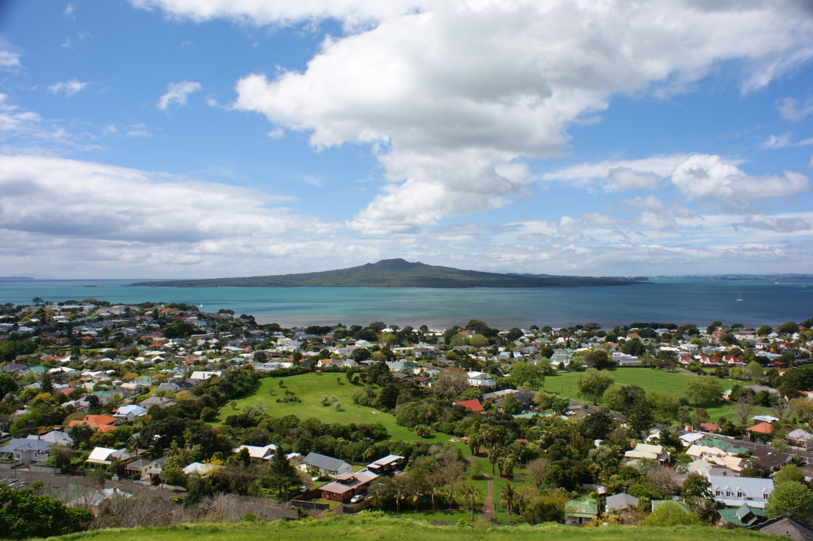 Rangitoto Island from Mt Victoria, Devonport